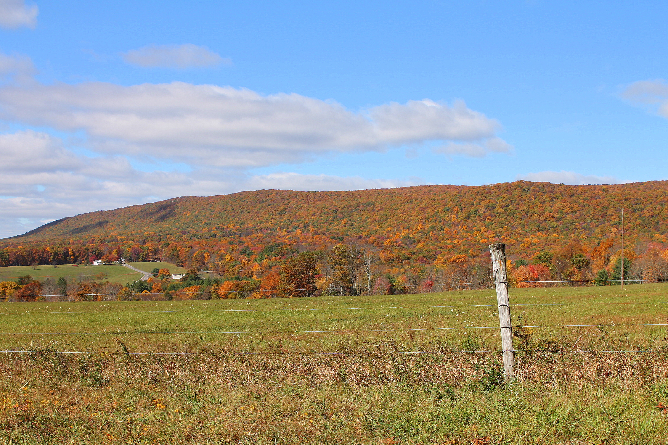 The western part of Buck Mountain from Buck Mountain Road